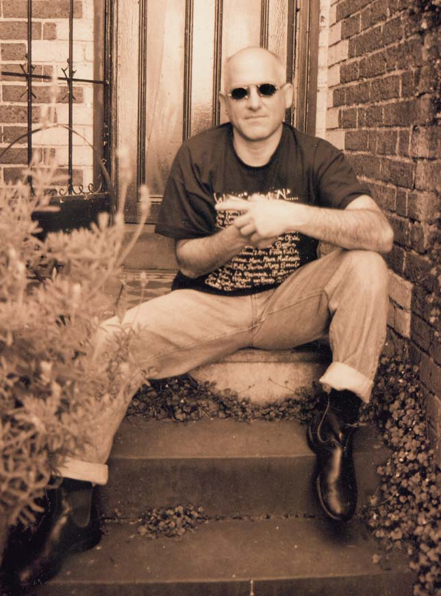 self-photographed promotional photo Category:Images of Australian people